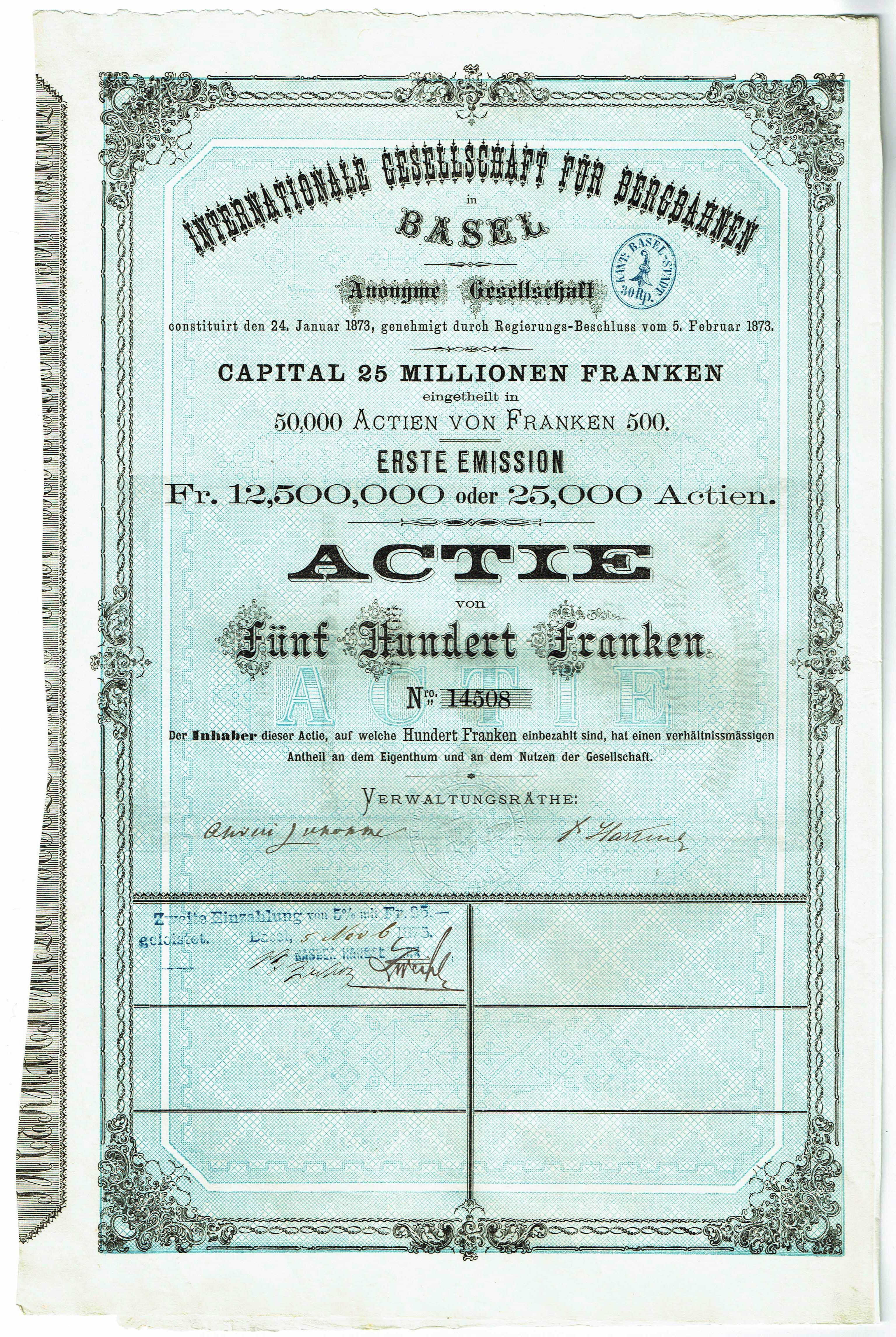 Share of the Internationale Gesellschaft für Bergbahnen, issued 5. February 1873